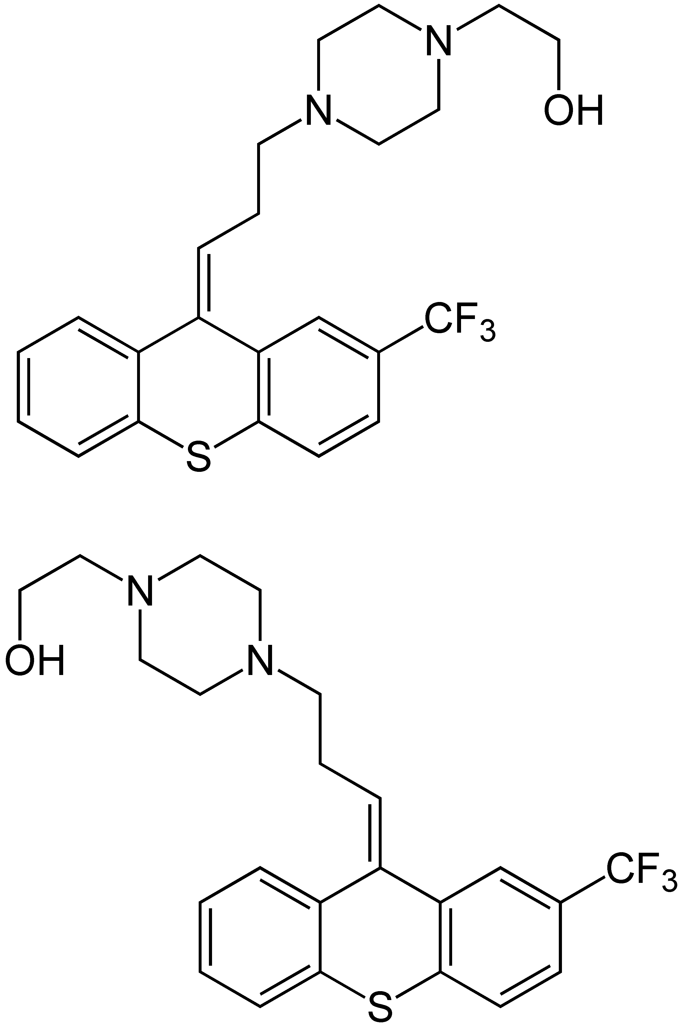 E-Z-Isomers of Flupentixol